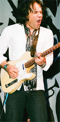 Wolf Mail live at the Jazz Town Theater in Moscow, Russia in 2009